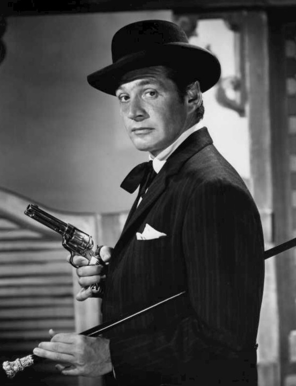 Photo of Gene Barry as Bat Masterson from the Western television series of the same name.